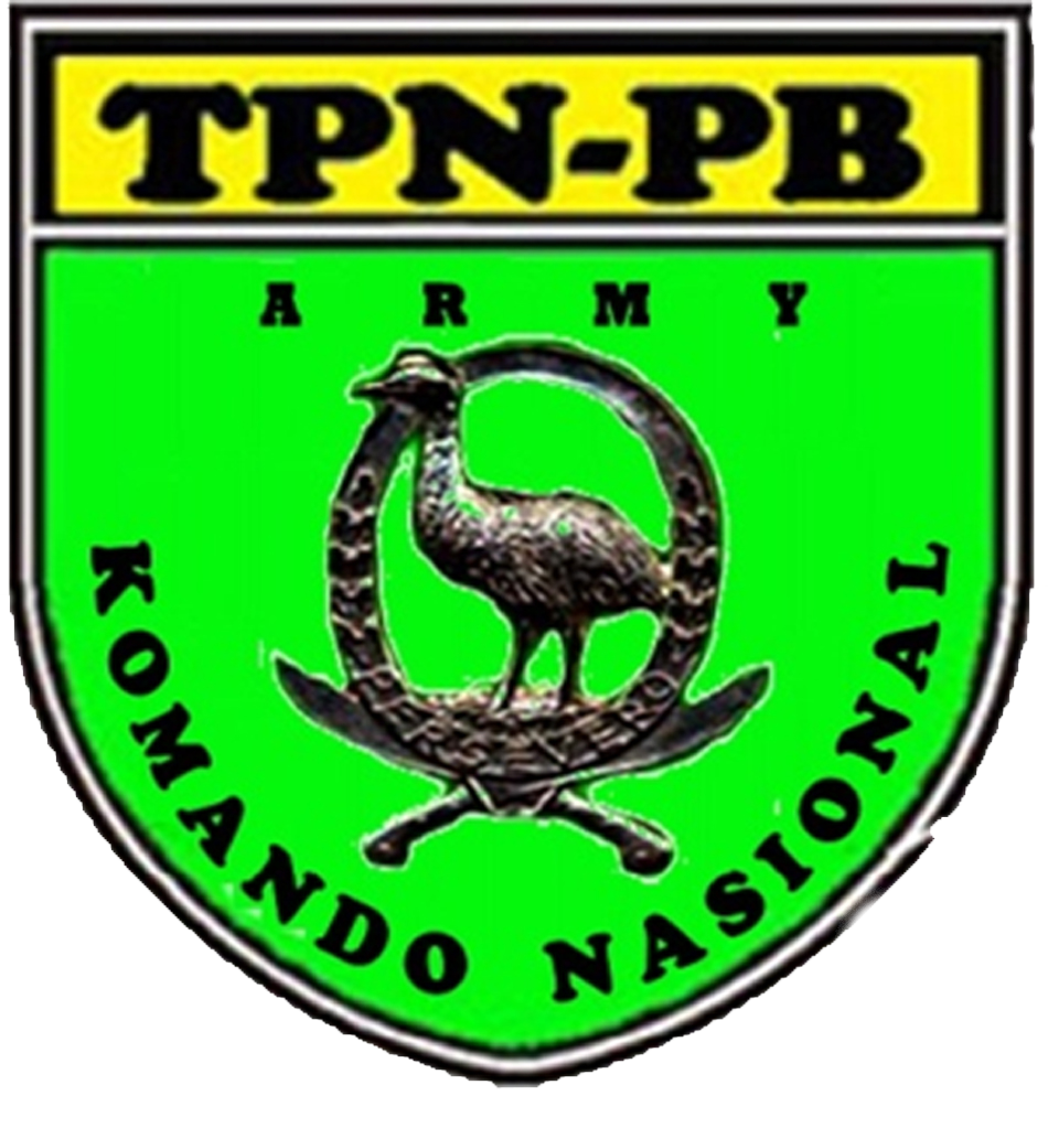 TPNPB